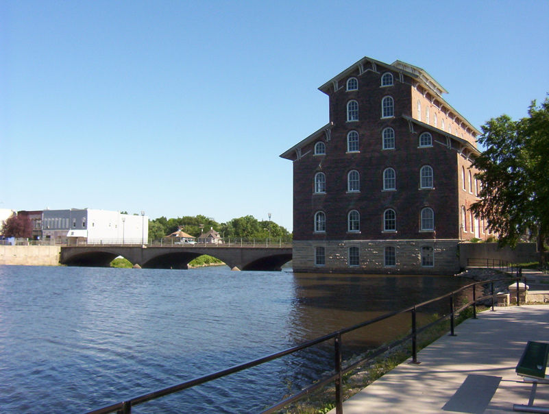 Photo of historic Wapsipinicon Mill in Independence Iowa. My own work, taken in June 2006.